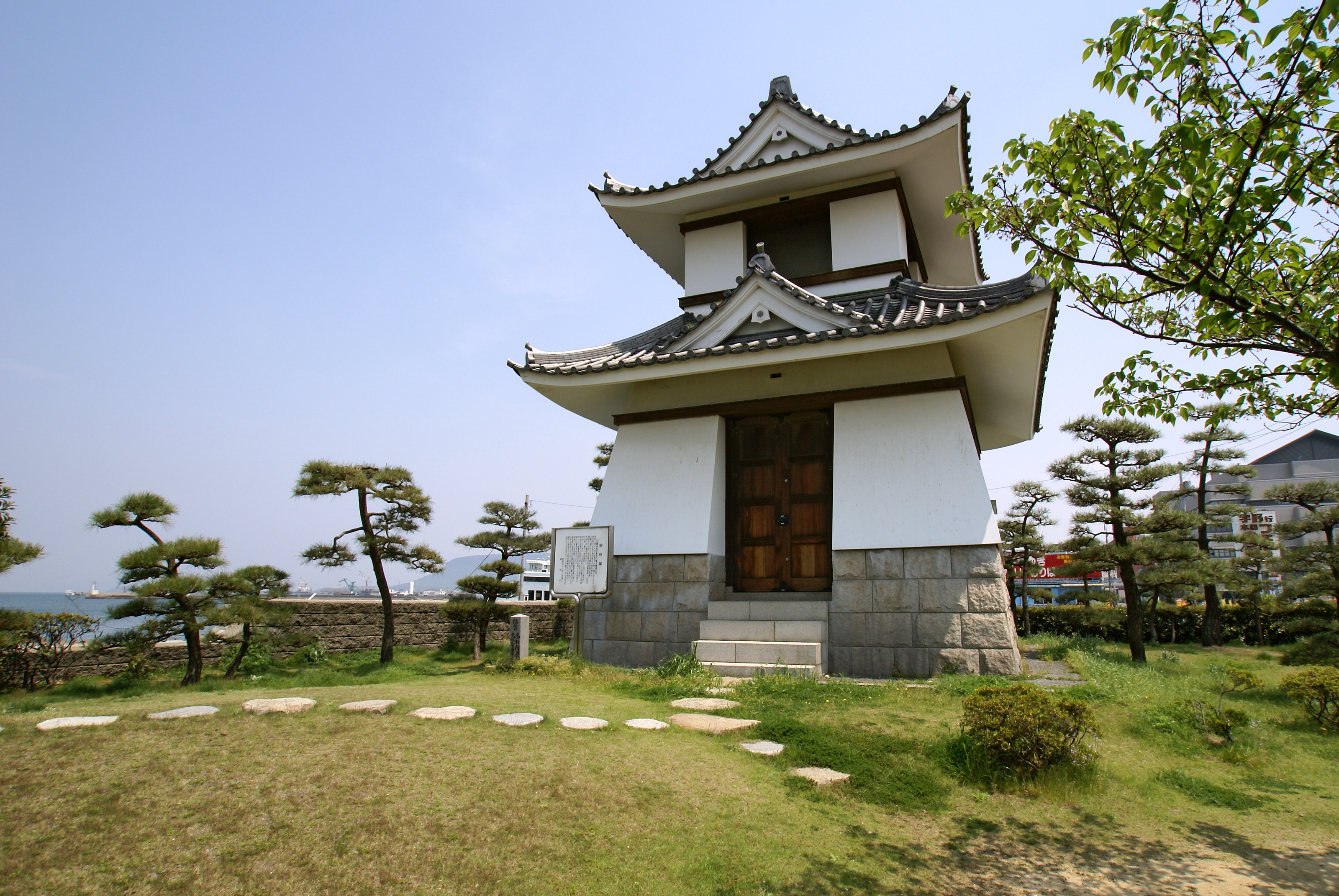 Hojisho in Tamamo-ryokuchi, Takamatsu, Kagawa prefecture, Japan